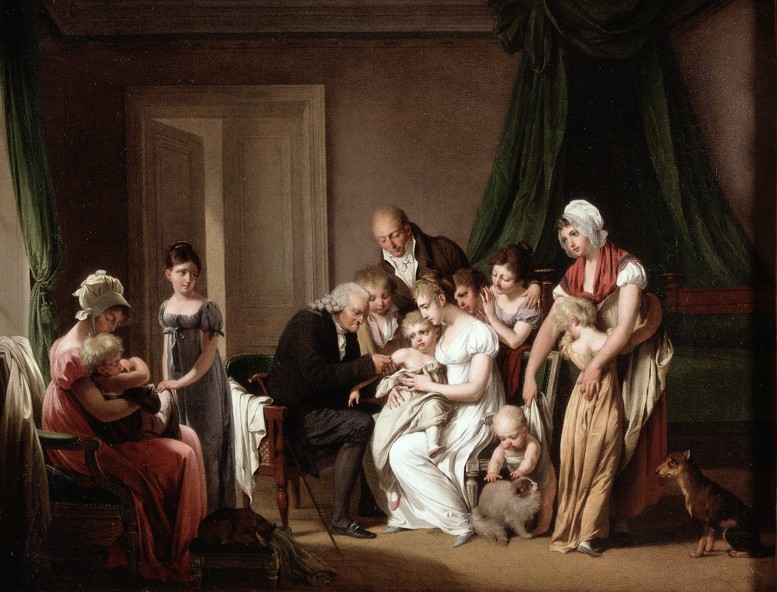 A vaccinator vaccinating a young child held by its mother, with other members of the household looking on. Oil painting by L.-L. Boilly, 1807[?]. Iconographic Collections Keywords: Louis-Léopold Boilly